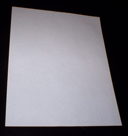 A sheet of paper - Large Image